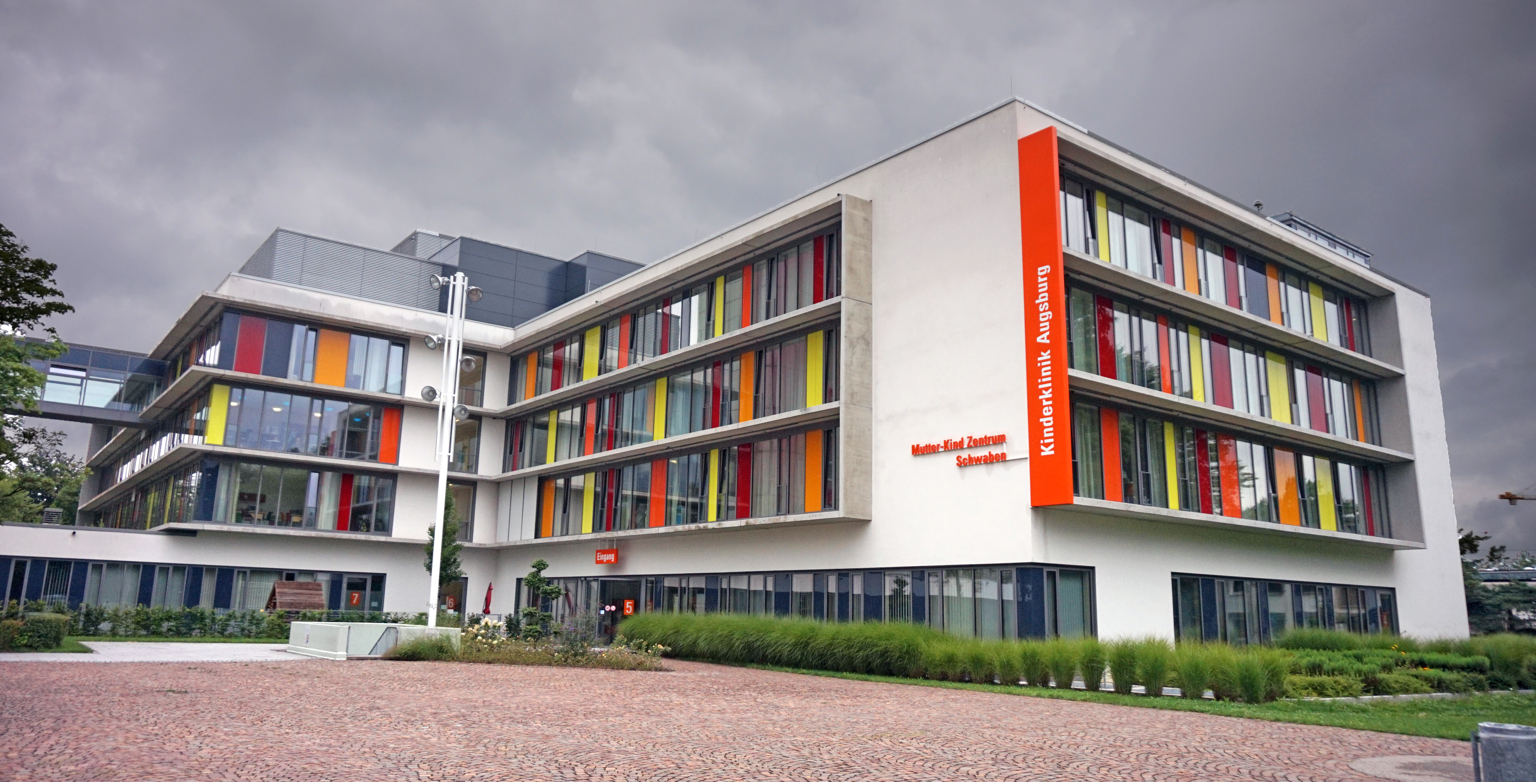 Kinderklinik Augsburg and Mutter-Kind-Zentrum Schwaben, Germany.This photograph was taken with a Sony ILCE-5000